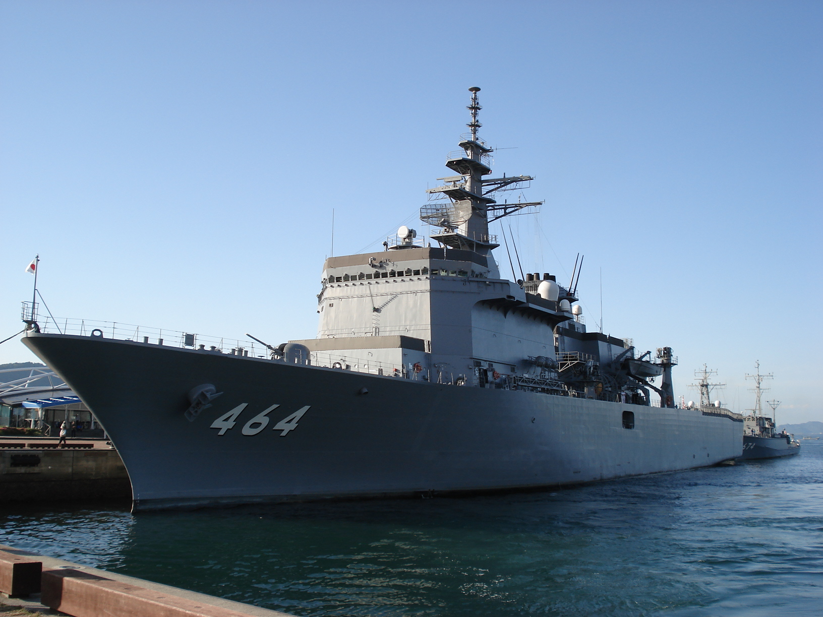 JS Bungo (MST-464) at Sunport Takamatsu.